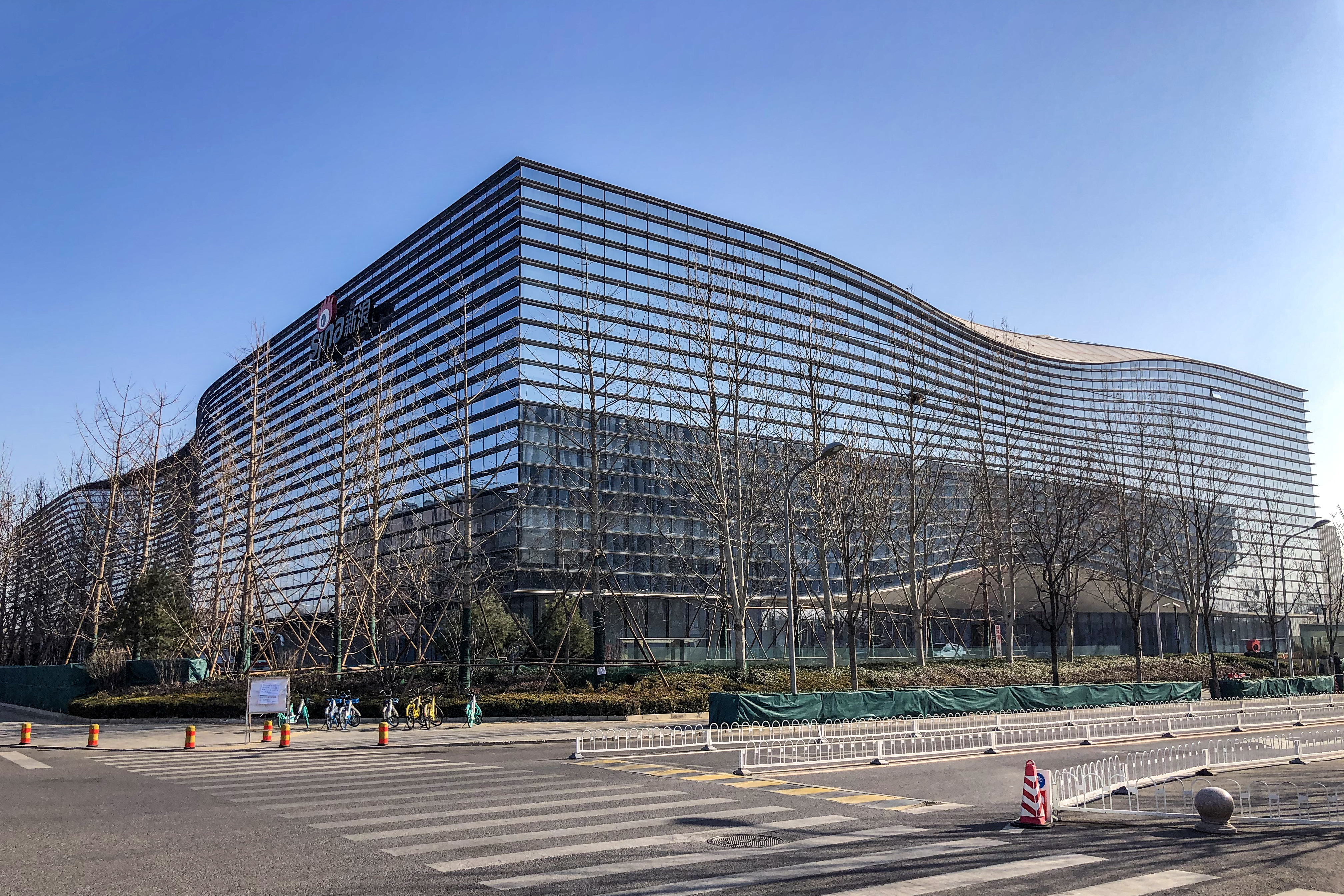 The door is on the north.